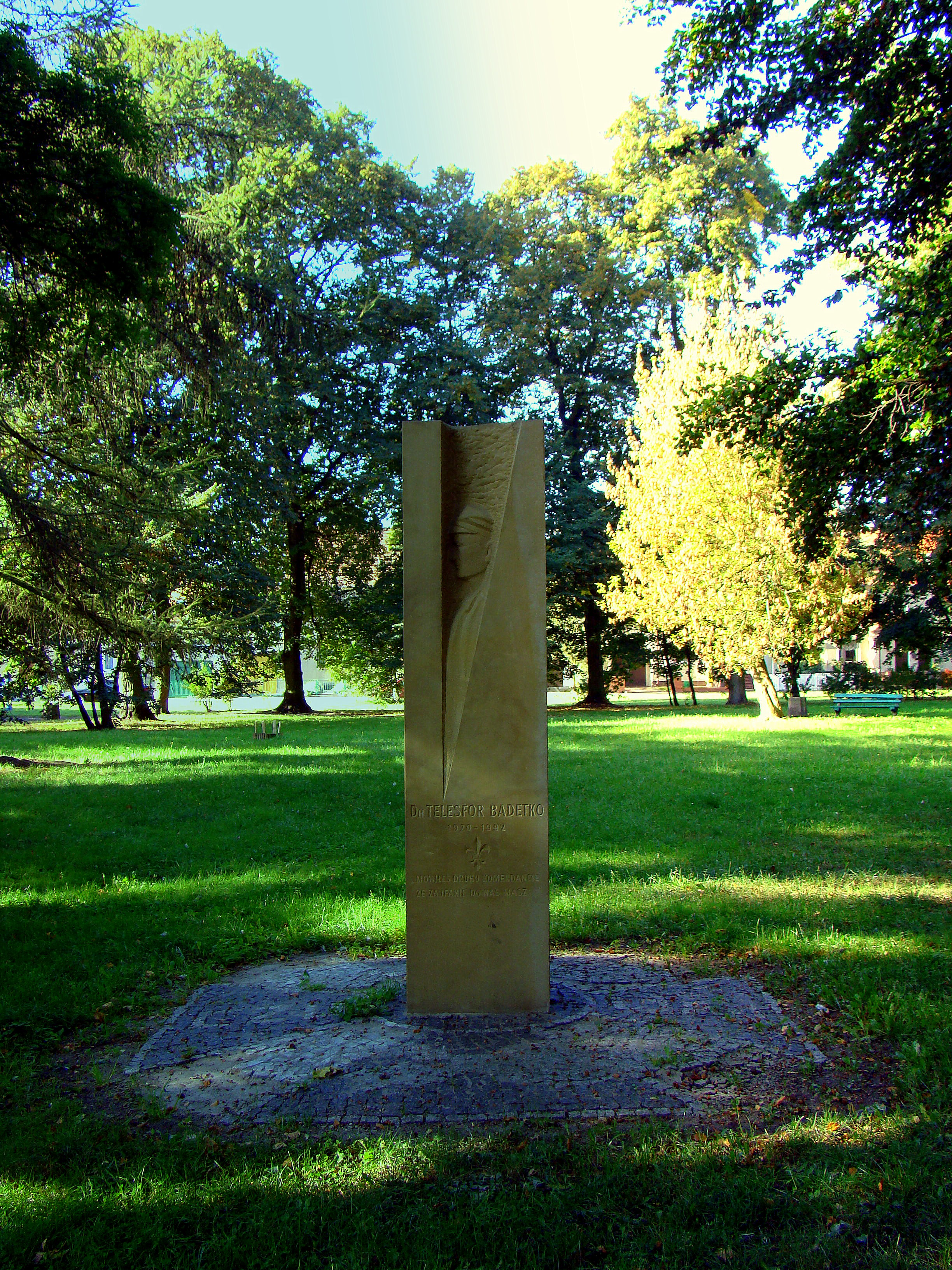 Telesfor Badetko Monument, Szczecin, Poland